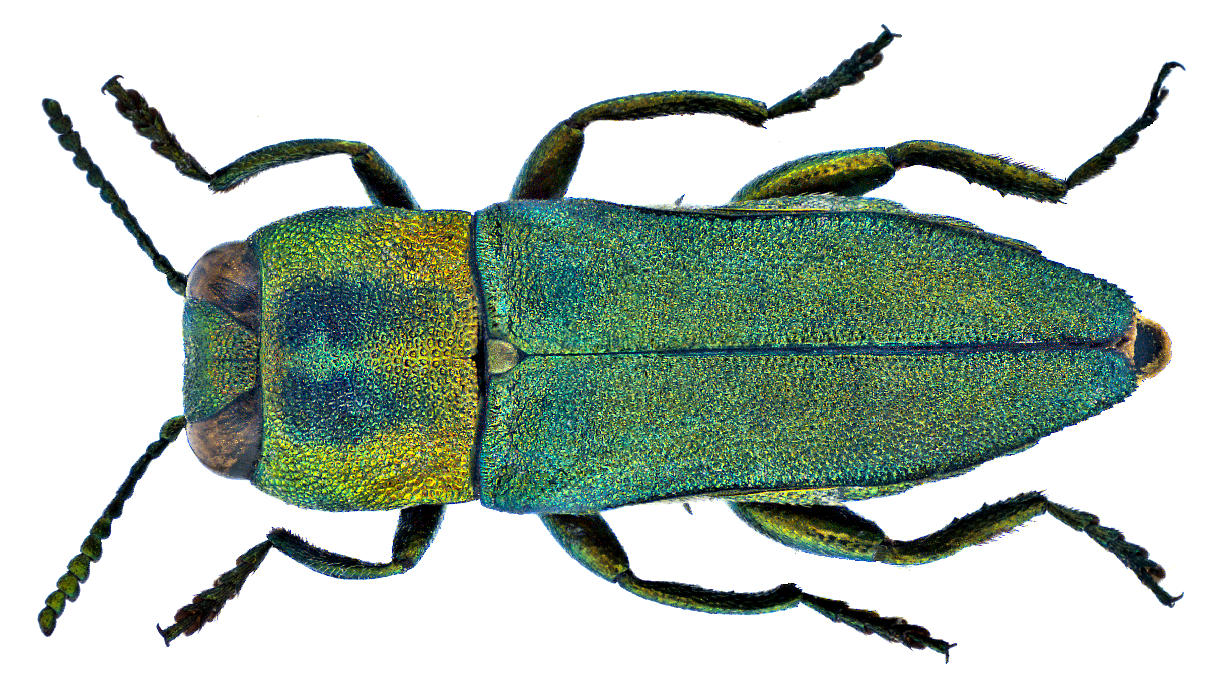 Family: Buprestidae Size: 6,9 mm Location: Cyprus, Larnaca Distr., Alaminos, environment Club Aldiana leg. U.Schmidt, 4.-14.V.2014; det. M.Niehuis, 2014 Photo: U.Schmidt, 2014